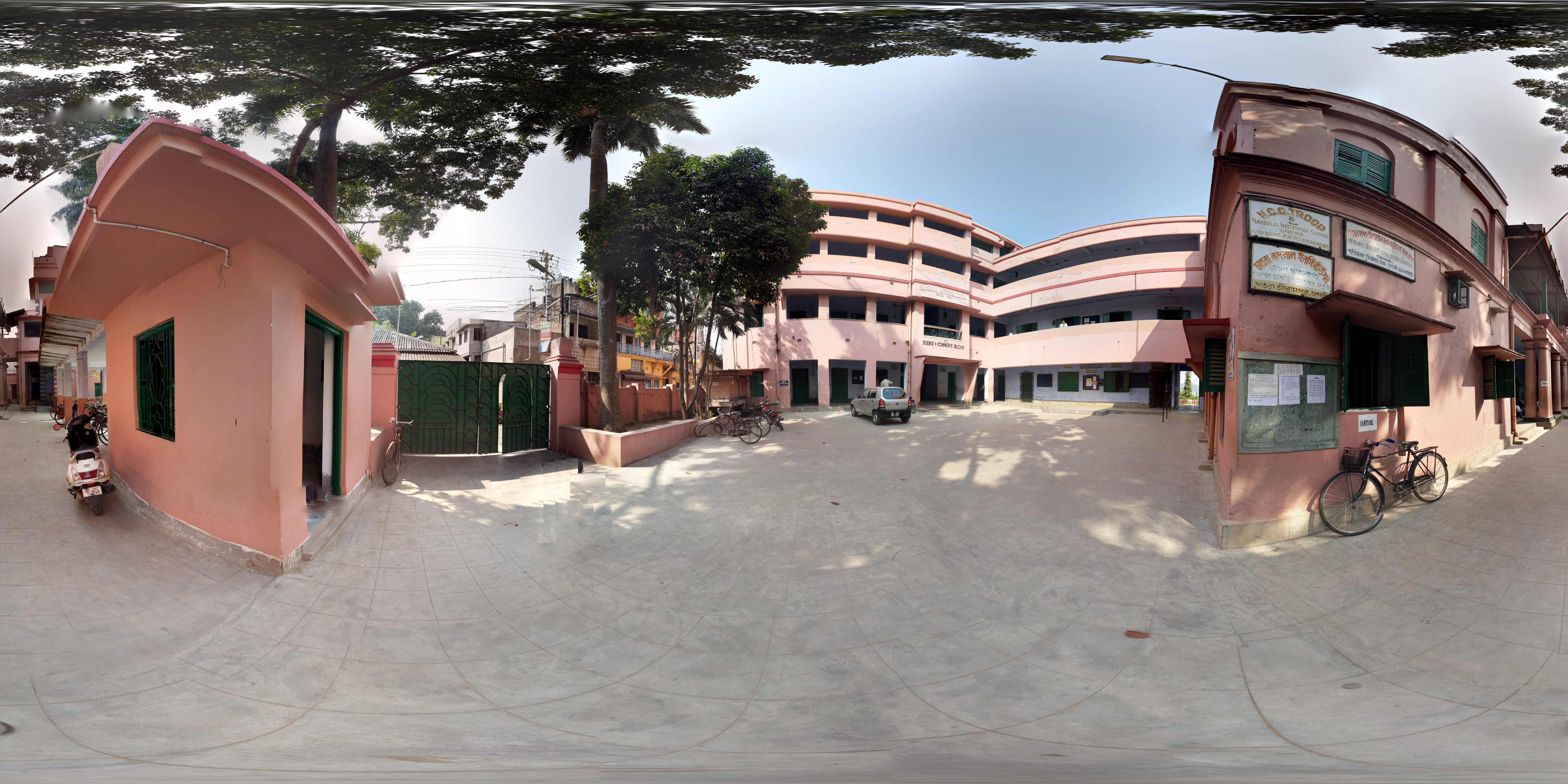 The total spherical view of Chatra Nandalal Institution. I took this photo.